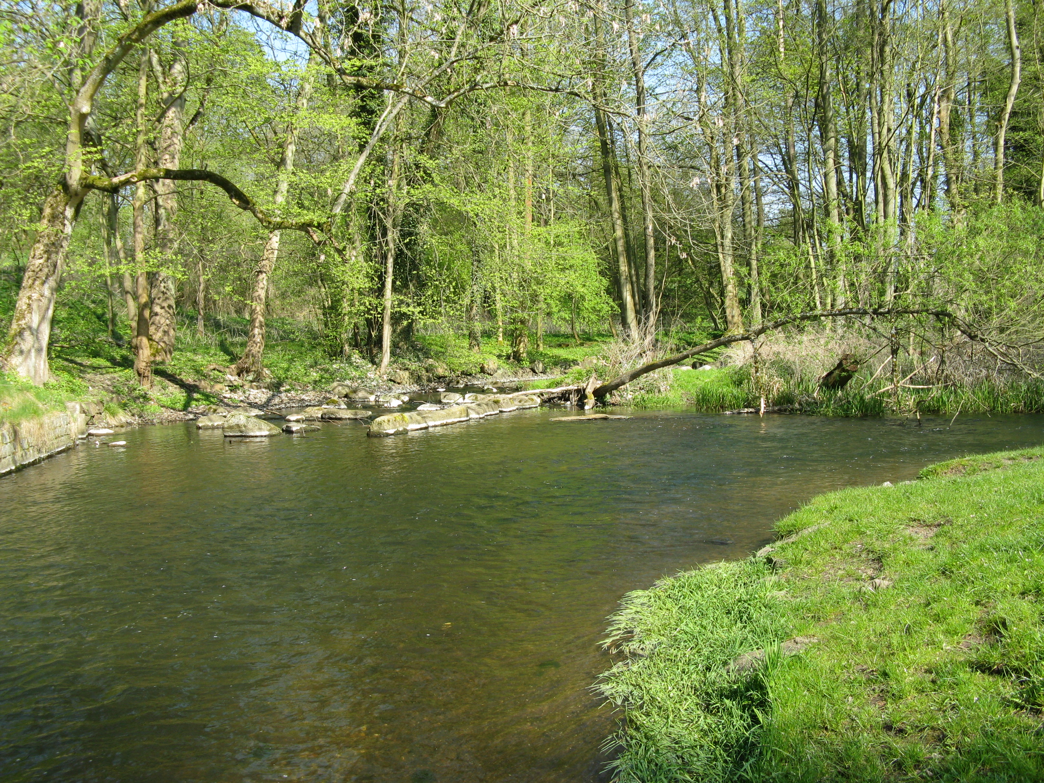 Warnow in Gädebehn, disctrict Parchim, Mecklenburg-Vorpommern, Germany